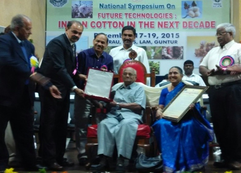 Kaderbad Ravindranath receiving Life Time Achievement Award of Cotton Research And Development Association (CRDA)